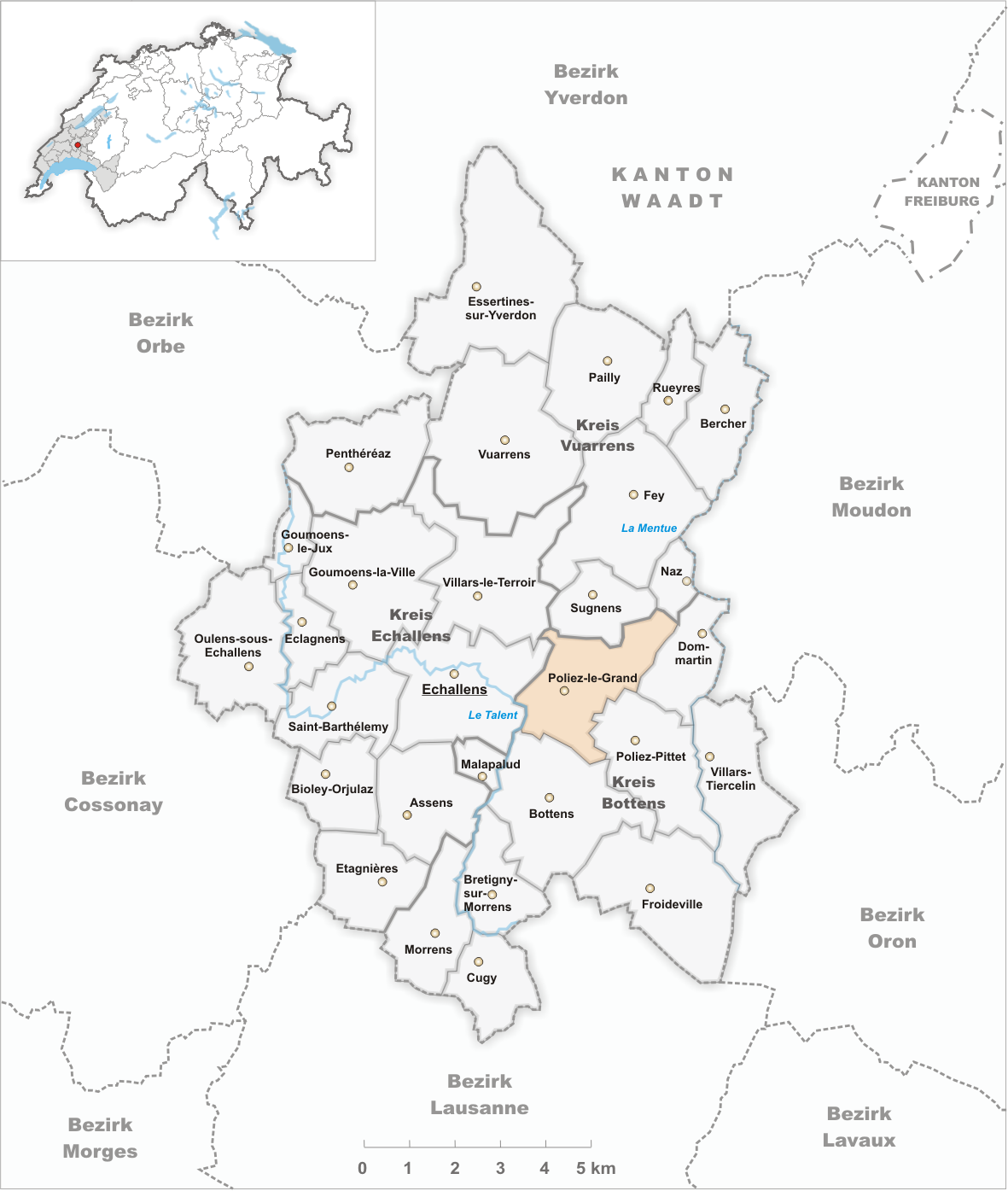 Municipality Poliez-le-Grand